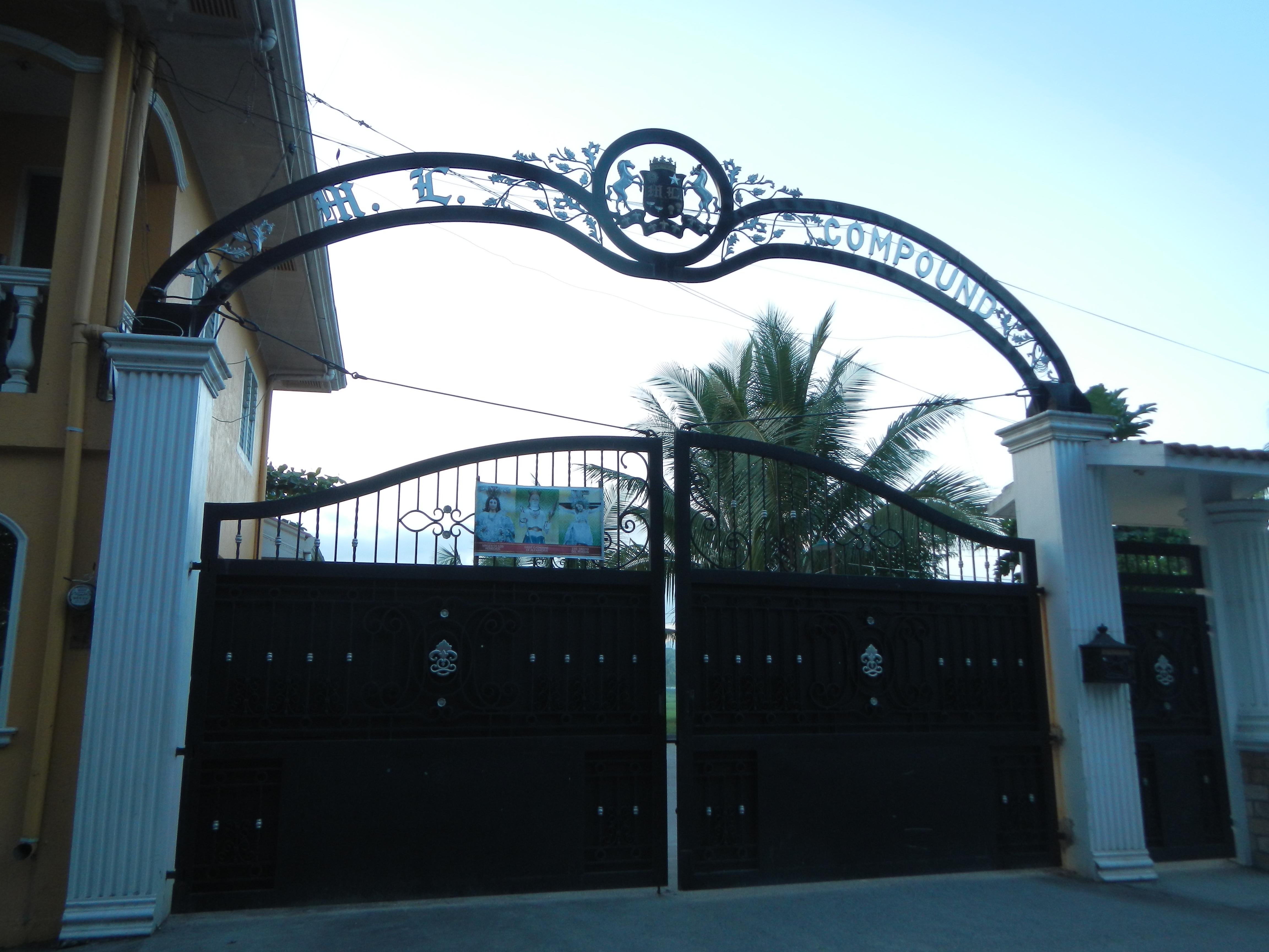 House of Senator Lito Lapid, Porac, Pampanga[1][2]